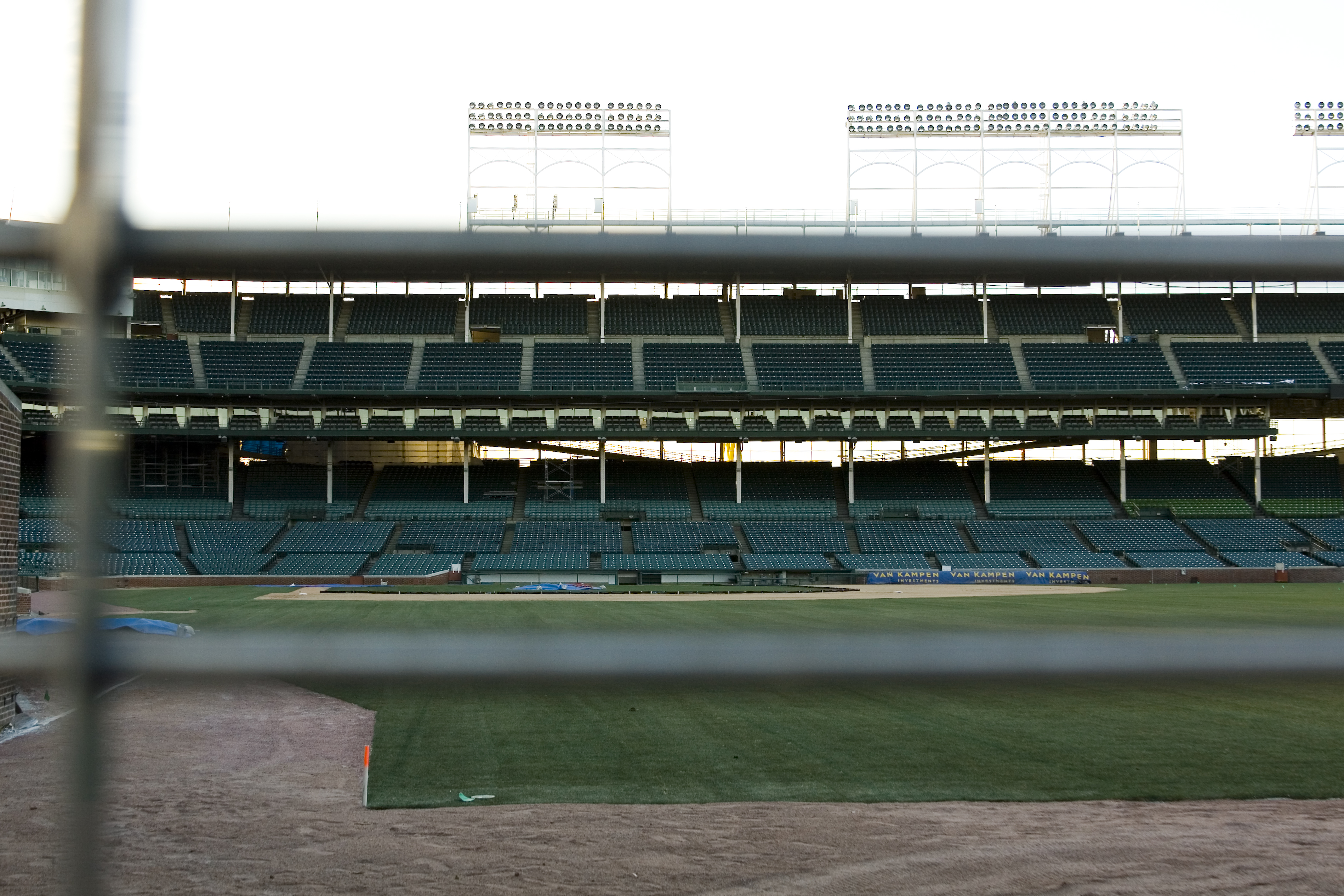 Wrigley Field in almost playable shape after the 2007 turf replacement. It would appear some infield work is still being performed. 21:24, 30 November 2007 . . RMelon . . 3,796×2,531 (4.7 MB)